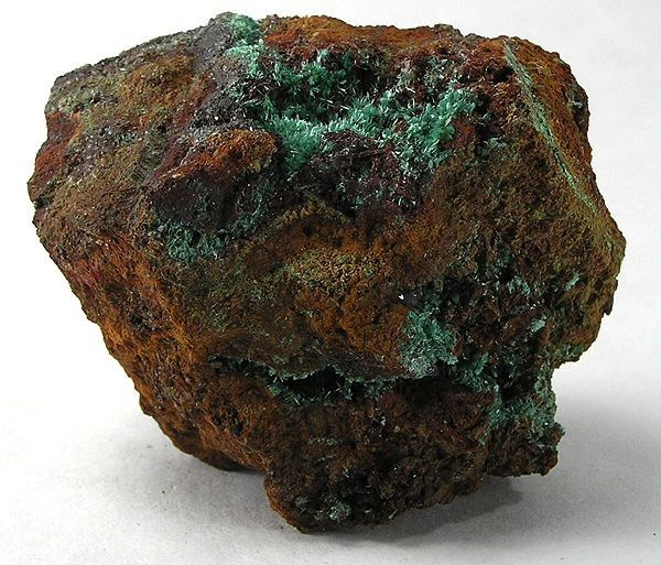 Olivenite Locality: Cobre Mine, Concepción del Oro, Municipio de Concepción del Oro, Zacatecas, Mexico (Locality at ) Size: 6.5 x 4.5 x 2.8 cm. A rarity from the classic Zacatecas locality - the arsenate olivenite, here represented in small burst of acicular green crystals (a common manifestation) in shallow pockets in a matrix of limonite. Ex. Roman Gaufman collection.